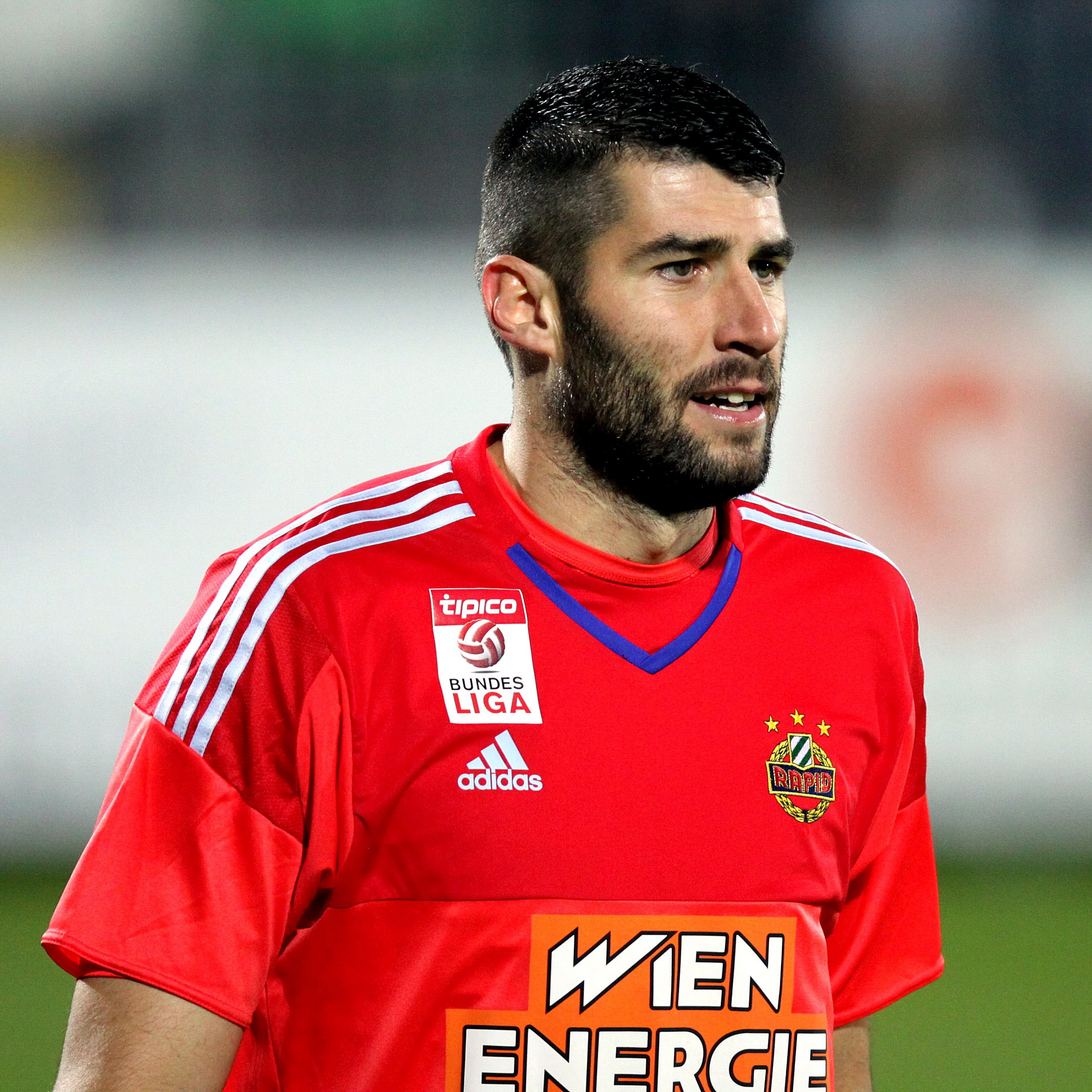 Match of the Austrian Football Bundesliga – SV Mattersburg (green shirts) vs. SK Rapid Wien (white shirts) 1-6 (0-5) at 2015-11-21 in Pappelstadion, Mattersburg – The photo shows Carsten Jancker, goalkeeper of SK Rapid Wien.